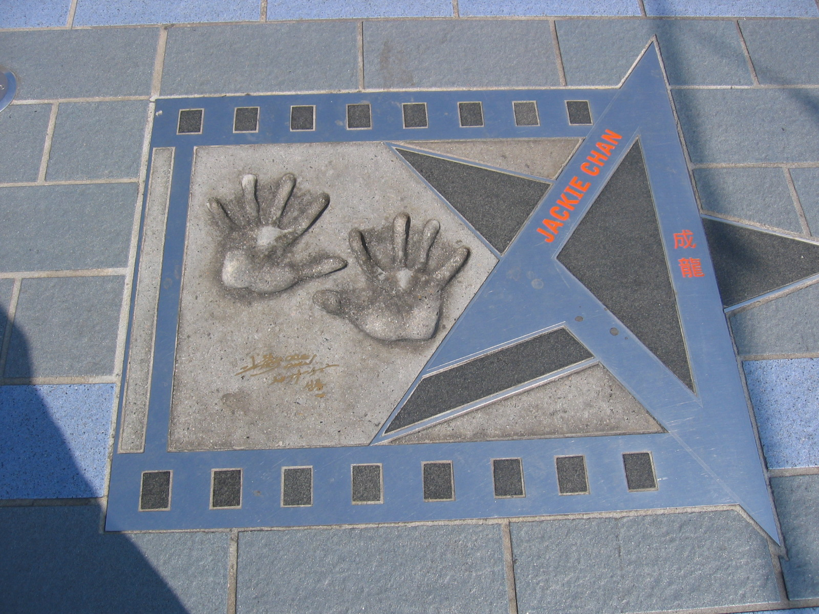 Jack Chong's star at the Avenue of Stars, Hong Kong.